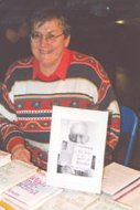 Anita Treguboff widow of Jurij A. Treguboff, selling his books